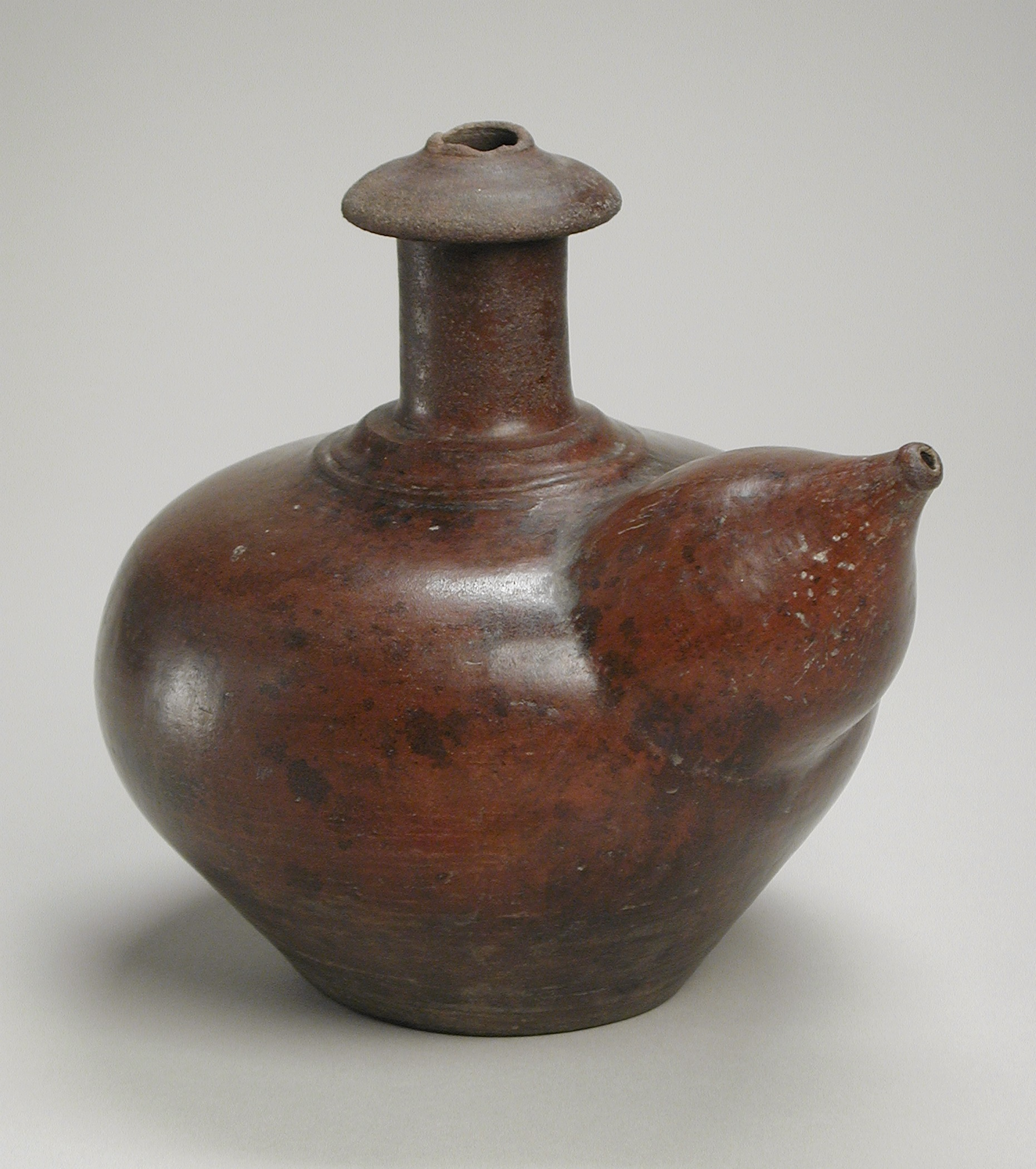 Indonesia, Eastern Java, Majapahit, 14th-15th century Furnishings; Serviceware Terracotta Gift of James and Jane Singer (M.88.72) South and Southeast Asian Art